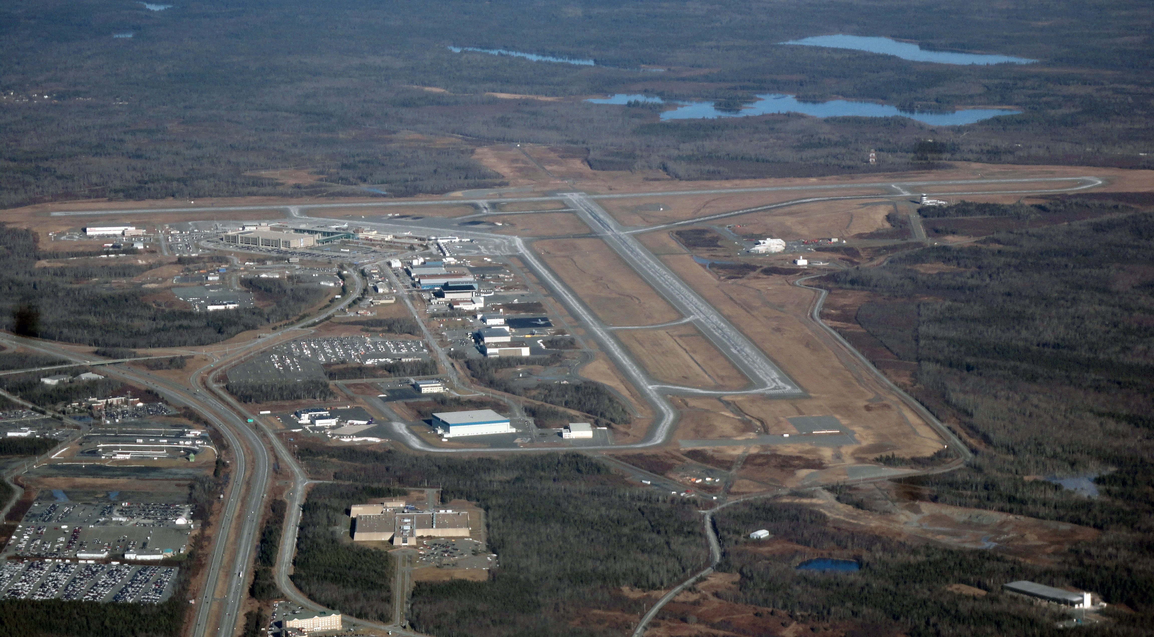 YHZ Halifax Stanfield International Airport. Approaching Runway 32 on December 30, 2011. Porter Airlines flight 281 from YTZ to YHZ.